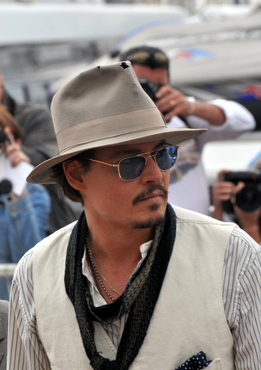 Johnny Depp at the Cannes film festival